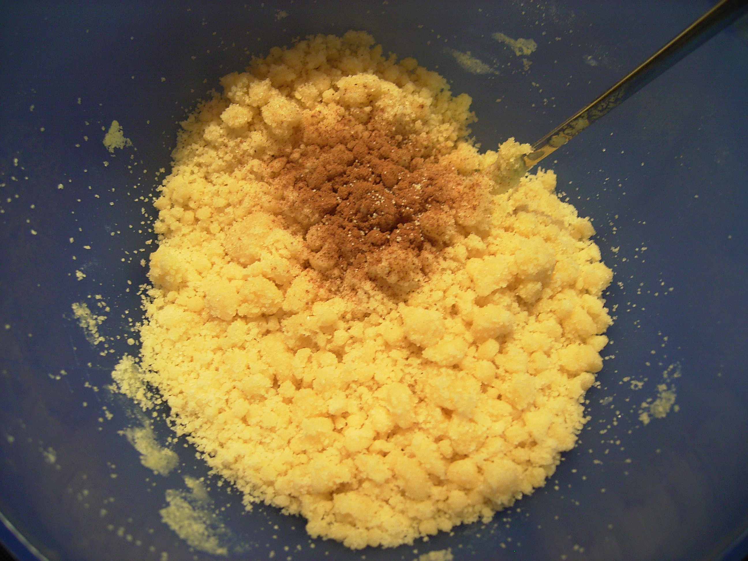 Preparation of a Streuselkuchen